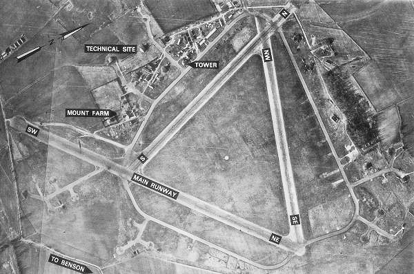 Aerial photograph of Mount Farm Airfield, England.